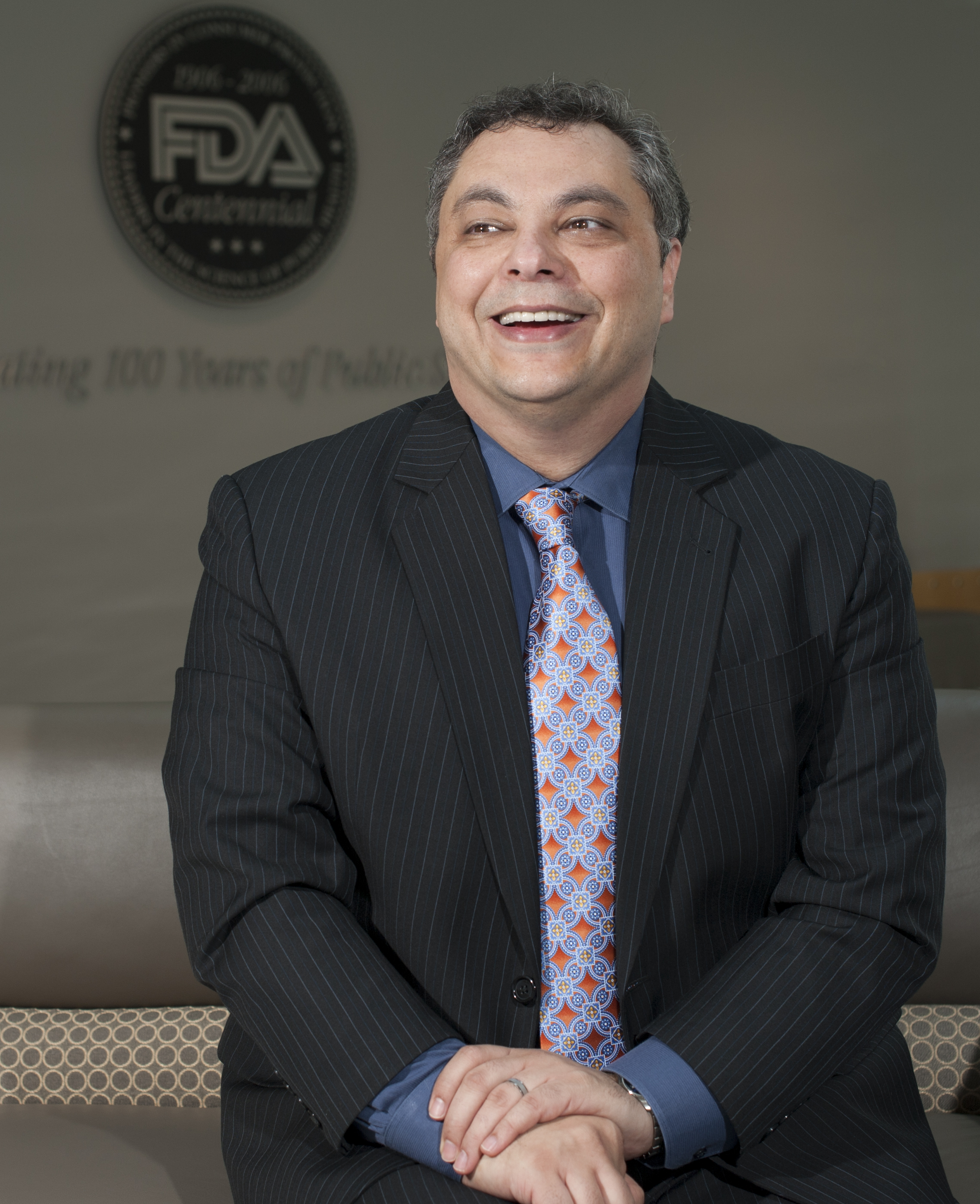 Taha A. Kass-Hout, M.D., M.S., is FDA’s Chief Health Informatics Officer and Director of FDA’s Office of Informatics and Technology Innovation. He's also a contributor to FDA Voice. This photo is free of all copyright restrictions and available for use and redistribution without permission. Credit to the U.S. Food and Drug Administration is appreciated but not required. For more privacy and use information visit: FDA photo by Michael J. Ermarth